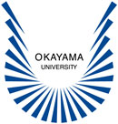 The logomark of Okayama University.